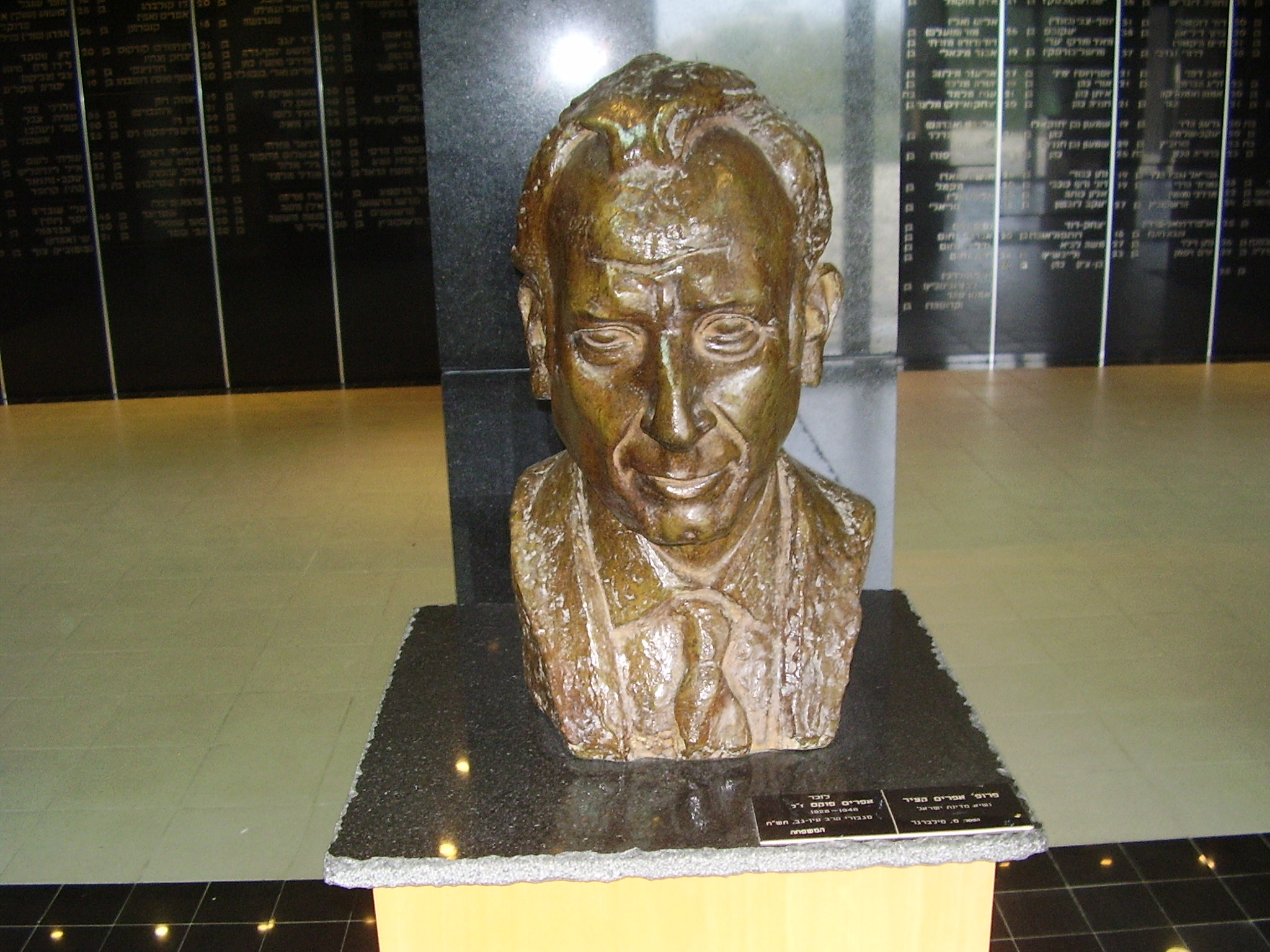 president ephraim kazir